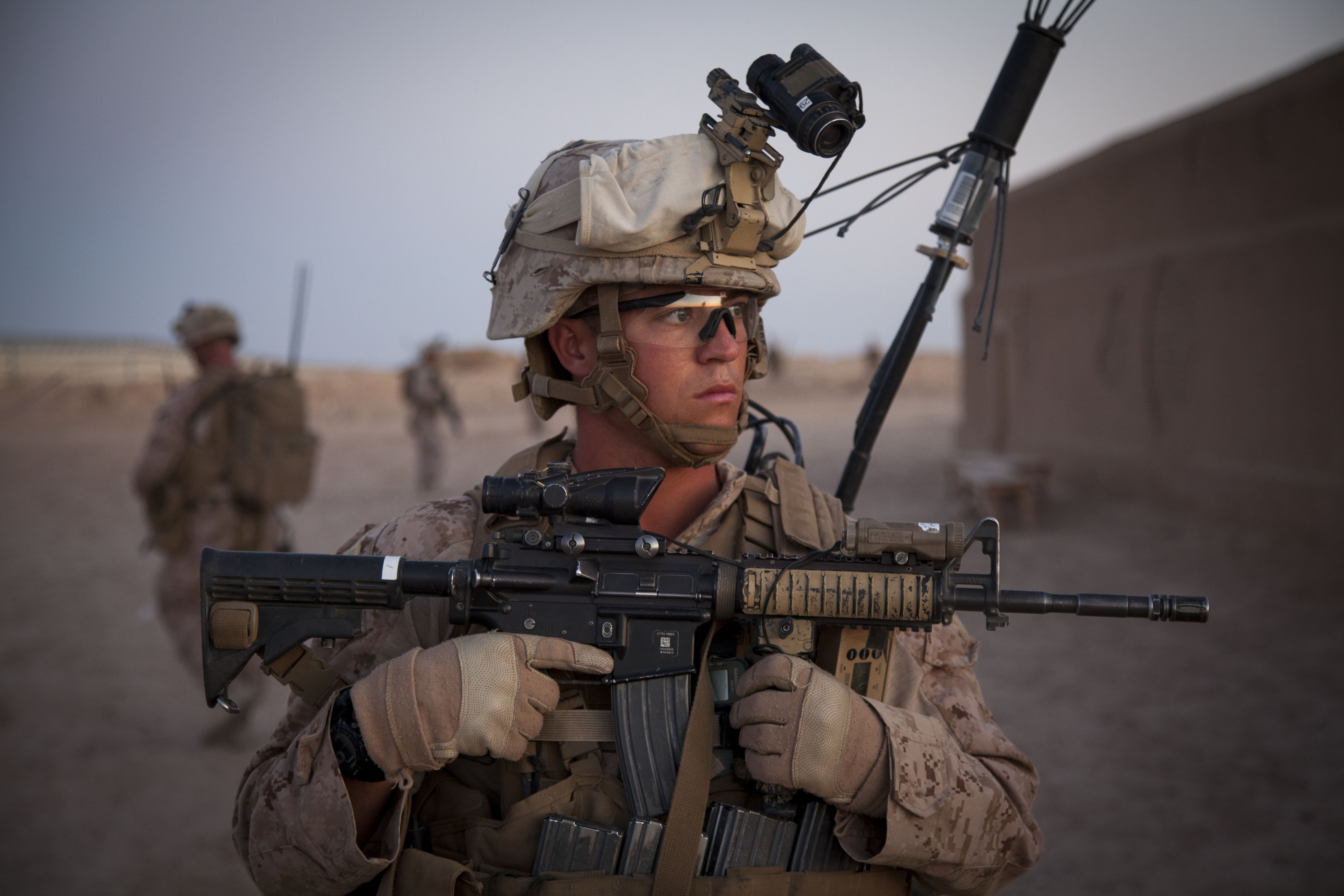 U.S. Marine Corps Sgt. Ryan Burks, a squad leader with Fox Company, 2nd Battalion, 8th Marine Regiment, Regimental Combat Team 7, provides security during a mission rehearsal at Camp Bastion, Helmand province, Afghanistan, May 27, 2013. The unit was preparing for a partnered operation with Afghan National Army soldiers.